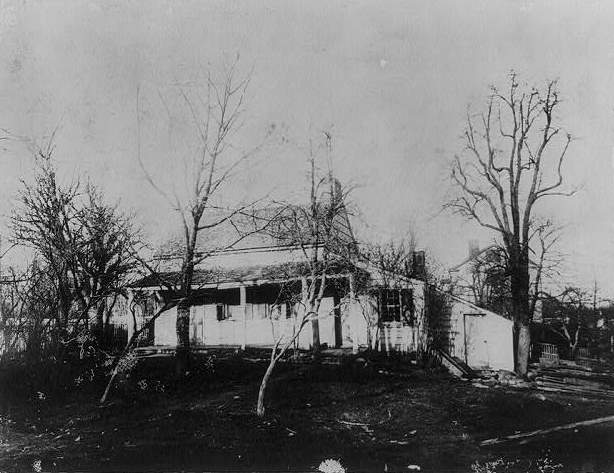 Photograph of the Edgar Allan Poe Cottage in the Bronx, NY, circa 1900